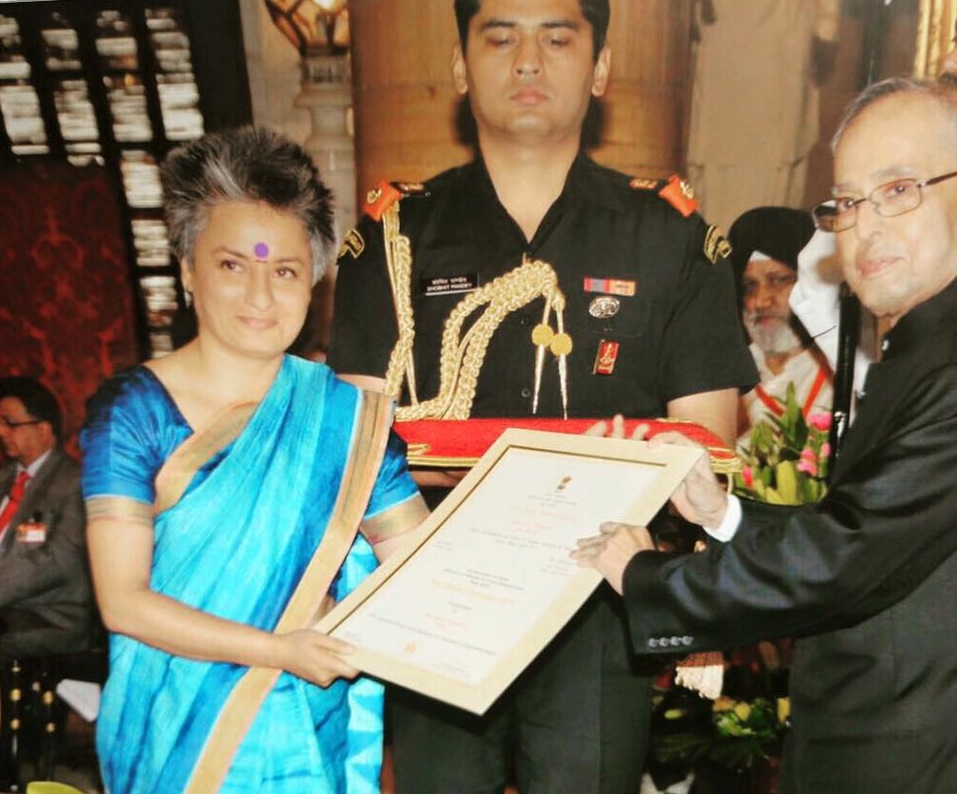 The Nari Shakti award is given to exemplary women who have battled tremendous odds to achieve exceptional results. This is the highest and most prestigious award given to women by the President of India.